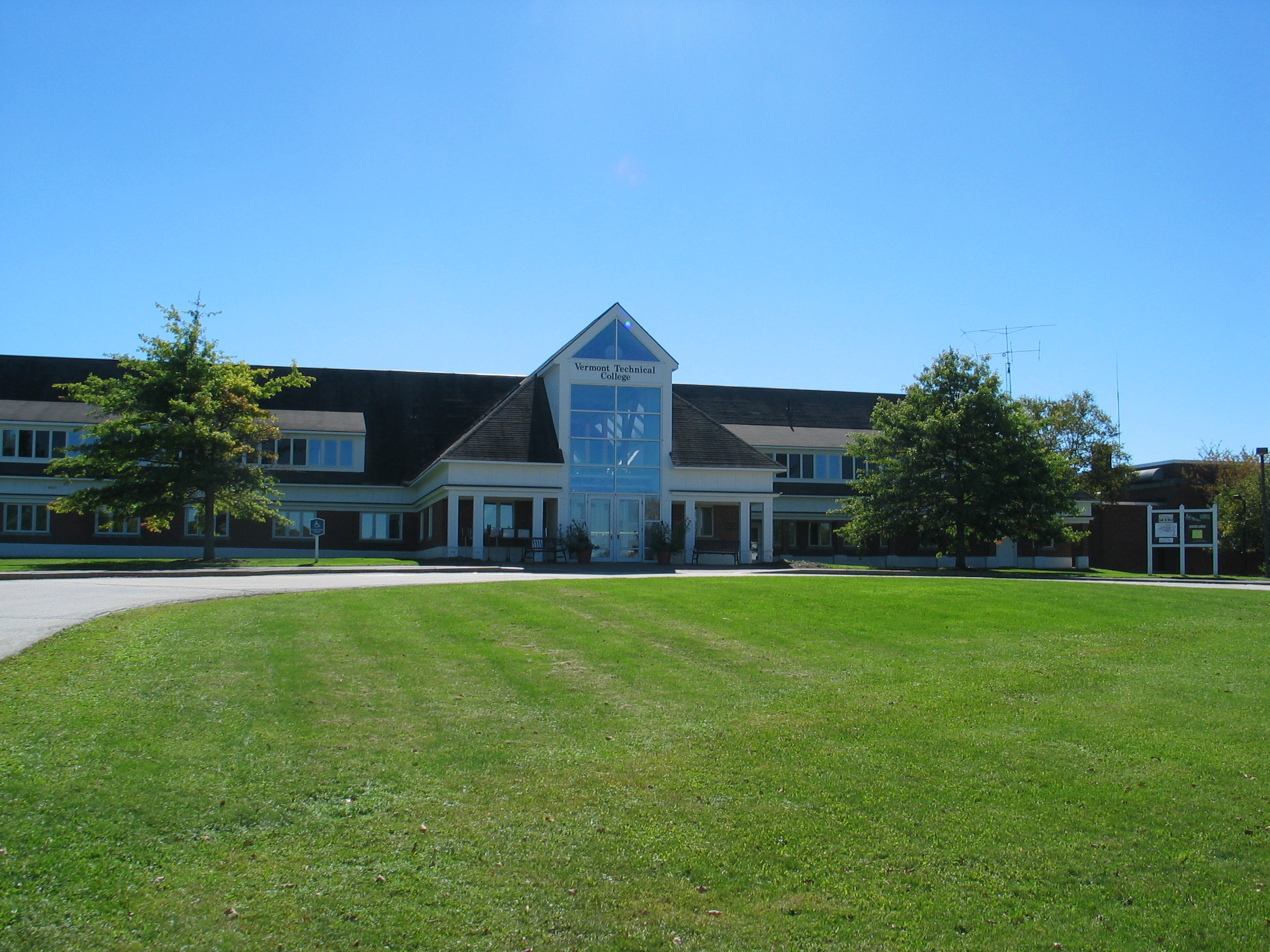 Description: Photograph of Vermont Technical College Photograph taken by Jared C. Benedict on 26 September 2004. Full resolution original available at: Copyright: © Jared C. Benedict.